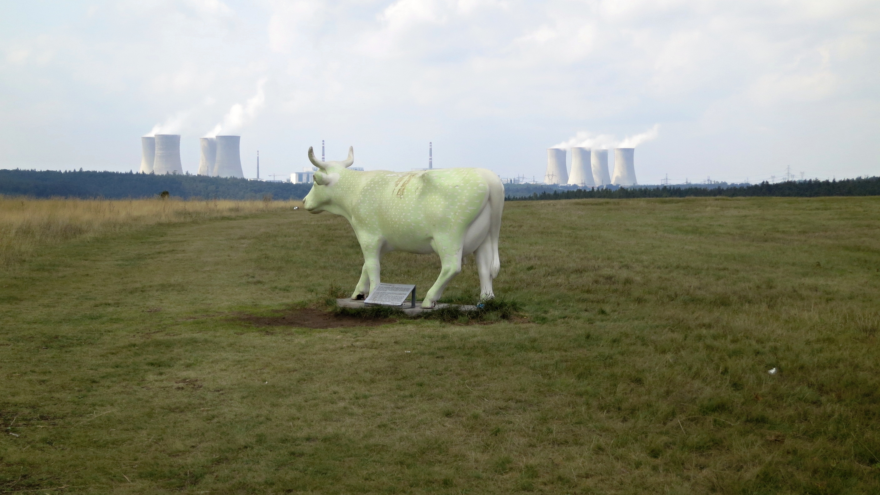 Sculpture of a cow, Serpentine steppe and Dukovany Nuclear Power Plant. Near Mohelno.